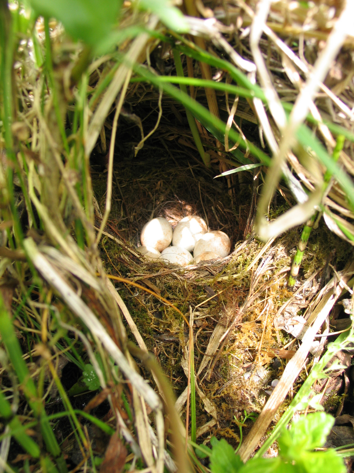 European Robin's nest with eggs on the ground near Vrhnika, Slovenia.